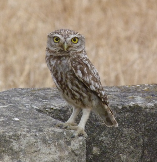 Near Tàrrega, Lleida, Catalonia.